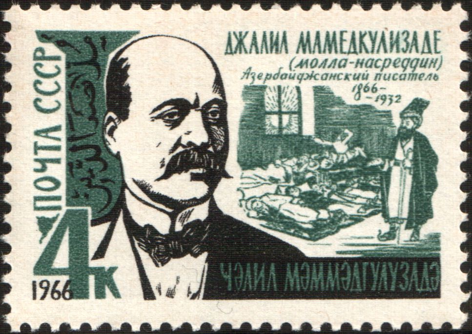 Stamo with portrait of Jalil Mamedkulizadeh (Azerbaijanian journalist) and "Molla Nasreddin" magazine's caricature